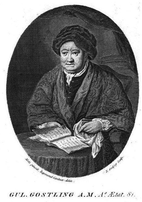 Portrait of William Gostling (1696 – 1777), English clergyman and antiquary.